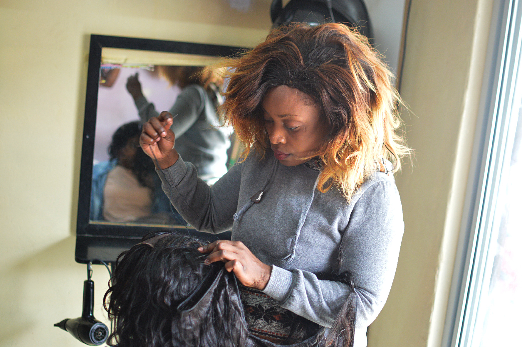 A hairdresser weaving/sewing hair extensions onto her customers head. This is an image of "African people at work" from Zimbabwe